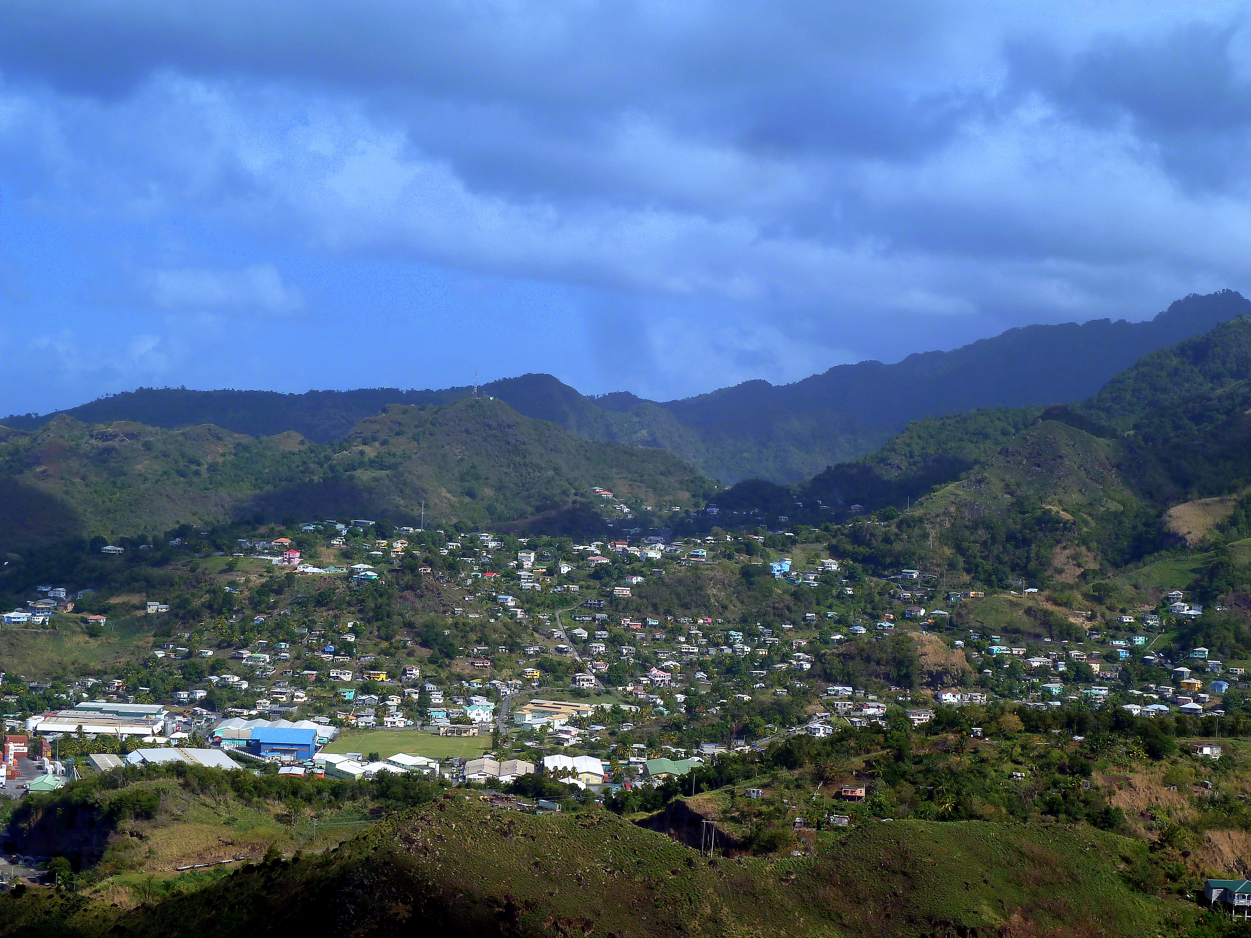 St. Vincent, Karibik - Kingstown - Looking north from Fort Charlotte